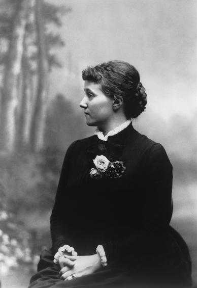 D. Aldegundes de Bragança (1858-1946), Infanta of Portugal and Duchess of Guimarães by birth; and Princess of Parma and Countess of Bardi by marriage.